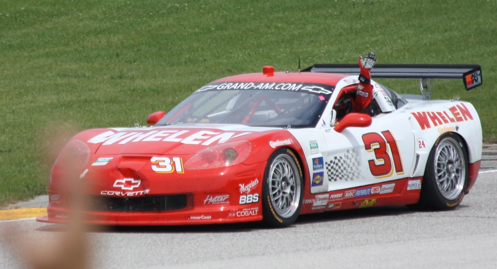 The GT sports car of Eric Curran and John Heinricy celebrating his win at an event at Road America.